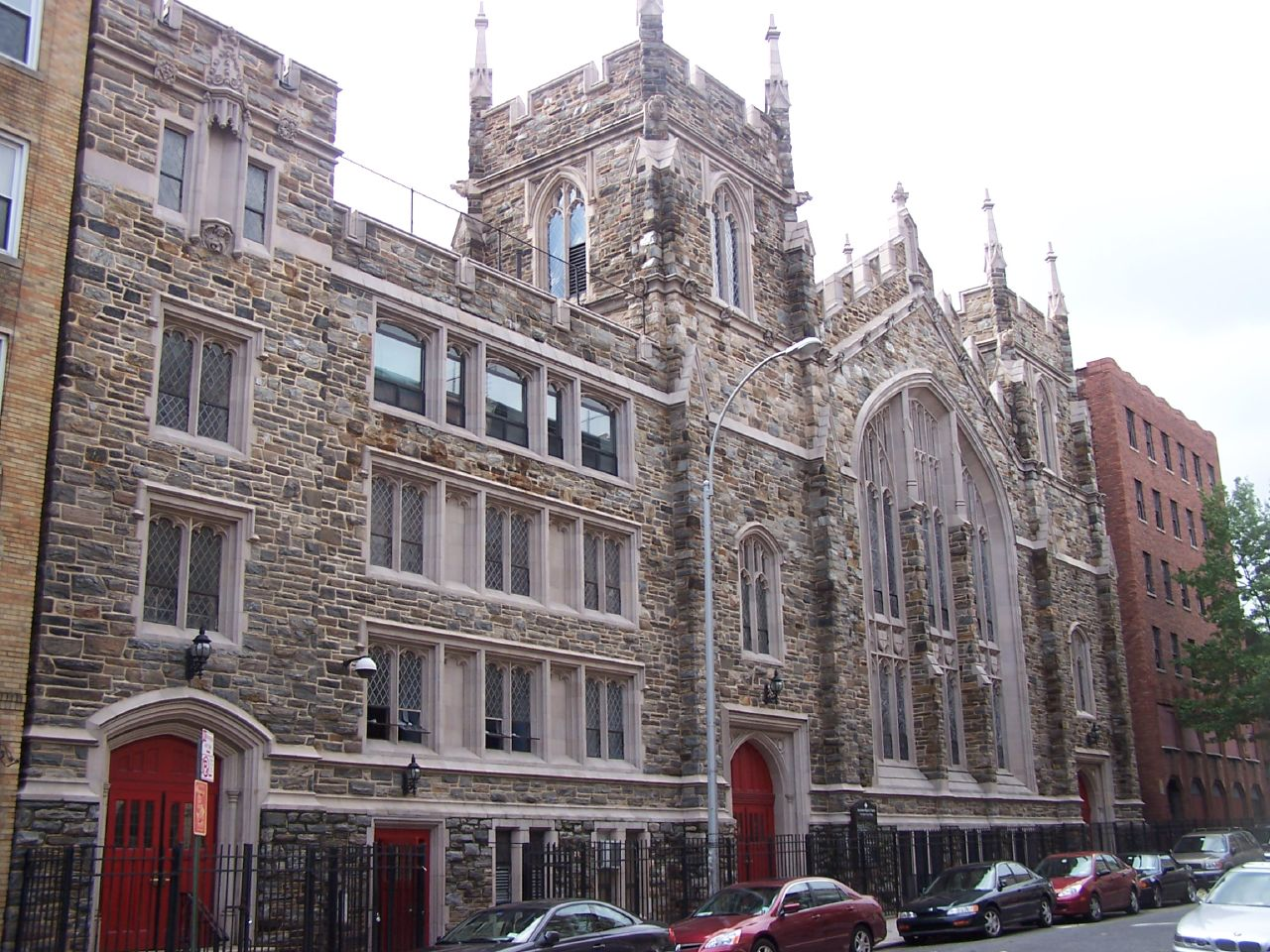 Abyssinian Baptist Church, Harlem, New York City, USAAbyssinian Baptist Church, Harlem